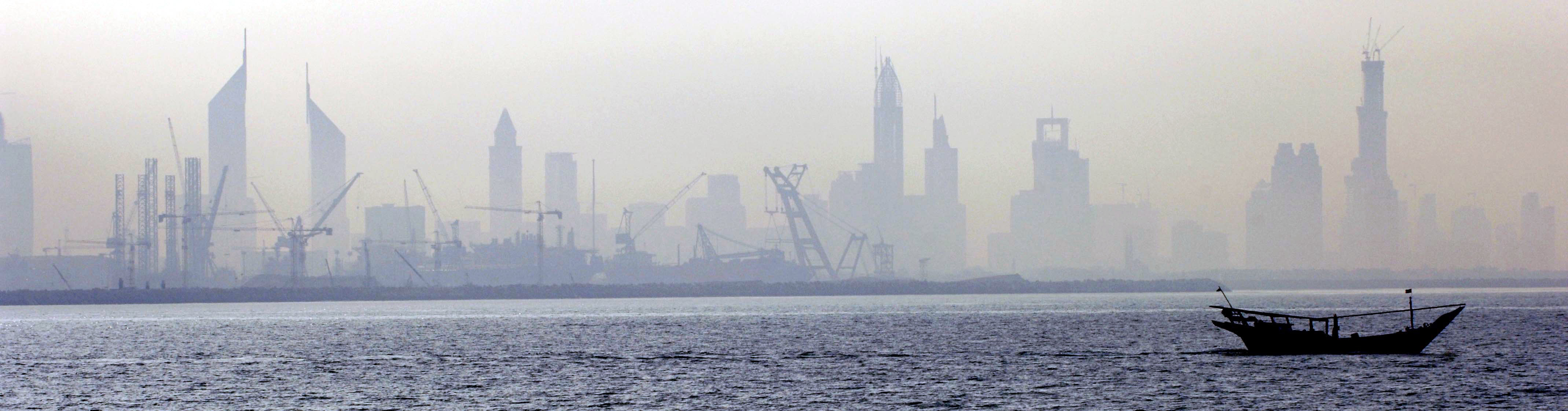 061222-N-5330L-038 Persian Gulf (Dec. 22, 2006) - The city of Dubai, one of the seven emirates that comprise the United Arab Emirates, is seen from aboard the guided-missile cruiser USS Anzio (CG 68) as it pulls into port. Anzio is currently deployed with USS Dwight D. Eisenhower and embarked Carrier Air Wing Seven (CVW-7) on a regularly scheduled deployment in support of Maritime Security Operations and global war on terrorism.